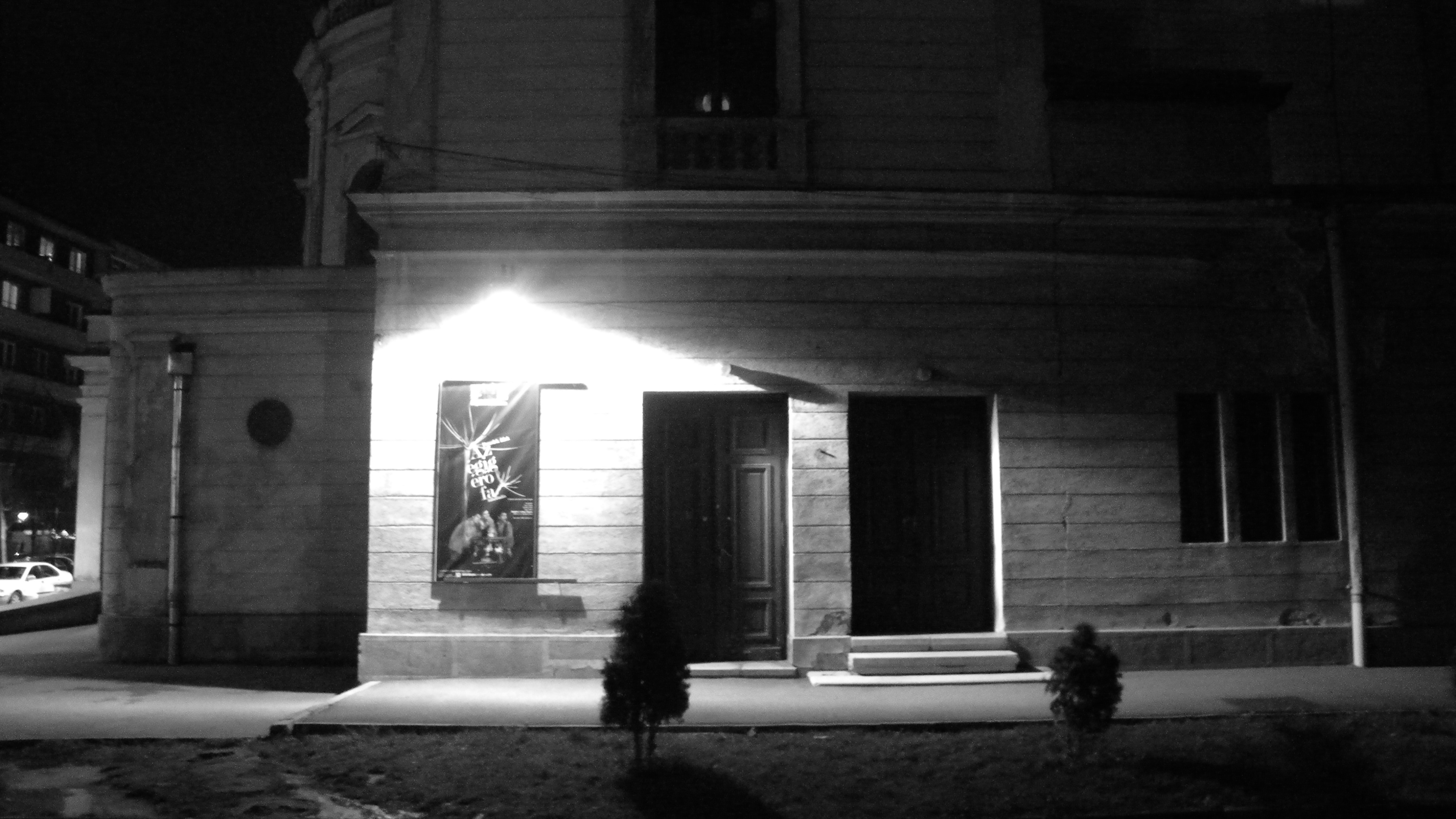 "Brighella" Puppet Theater